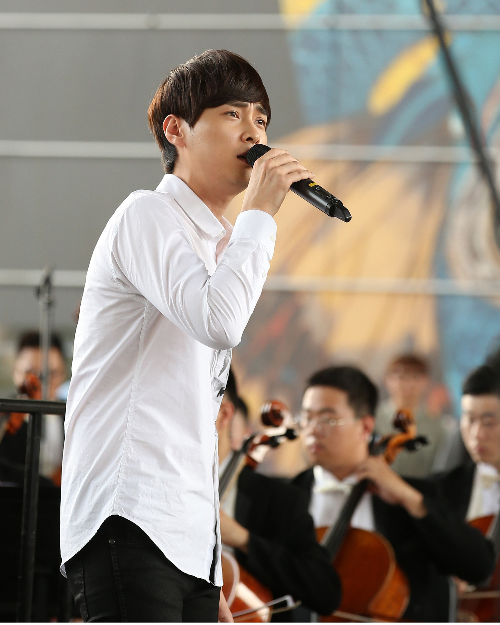 National Museum of Korea ‘Cultural Event’ August 6, 2015 National Museum of Korea Ministry of Culture, Sports and Tourism Korean Culture and Information Service ( Official Photographer : Jeon Han The photograph may not be used in any type of commercial, advertisement, product or promotion that in any way suggests approval or endorsement from the government of the Republic of Korea.